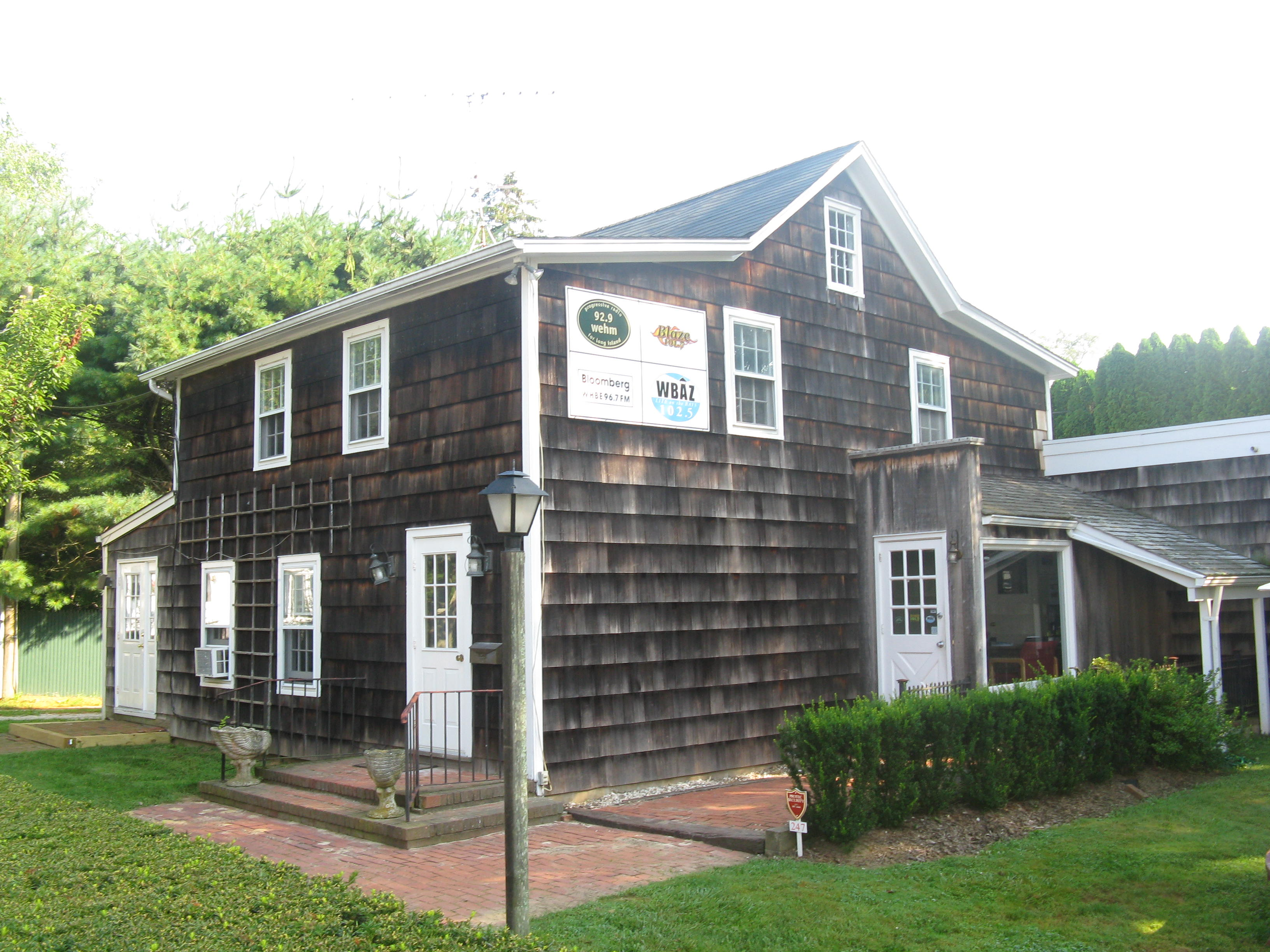 Studios of WBAZ, WHBE, WEHM, WBEA in Amagansett, New York